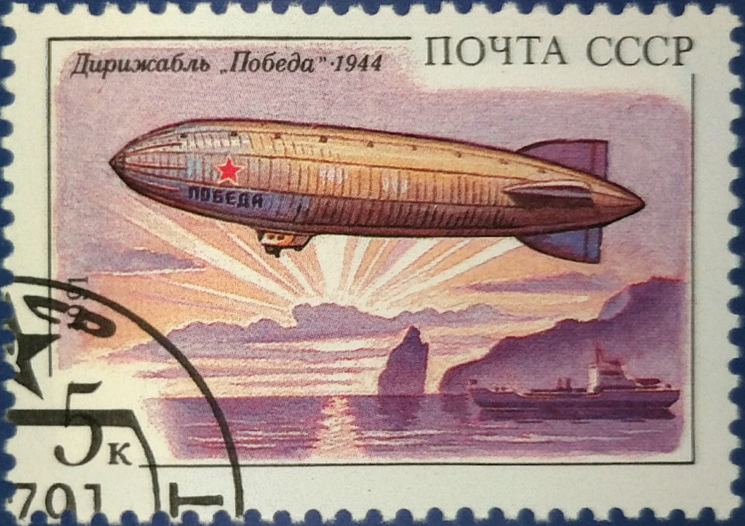 Stamp of USSR: Victory, 1944. Issue: Airships